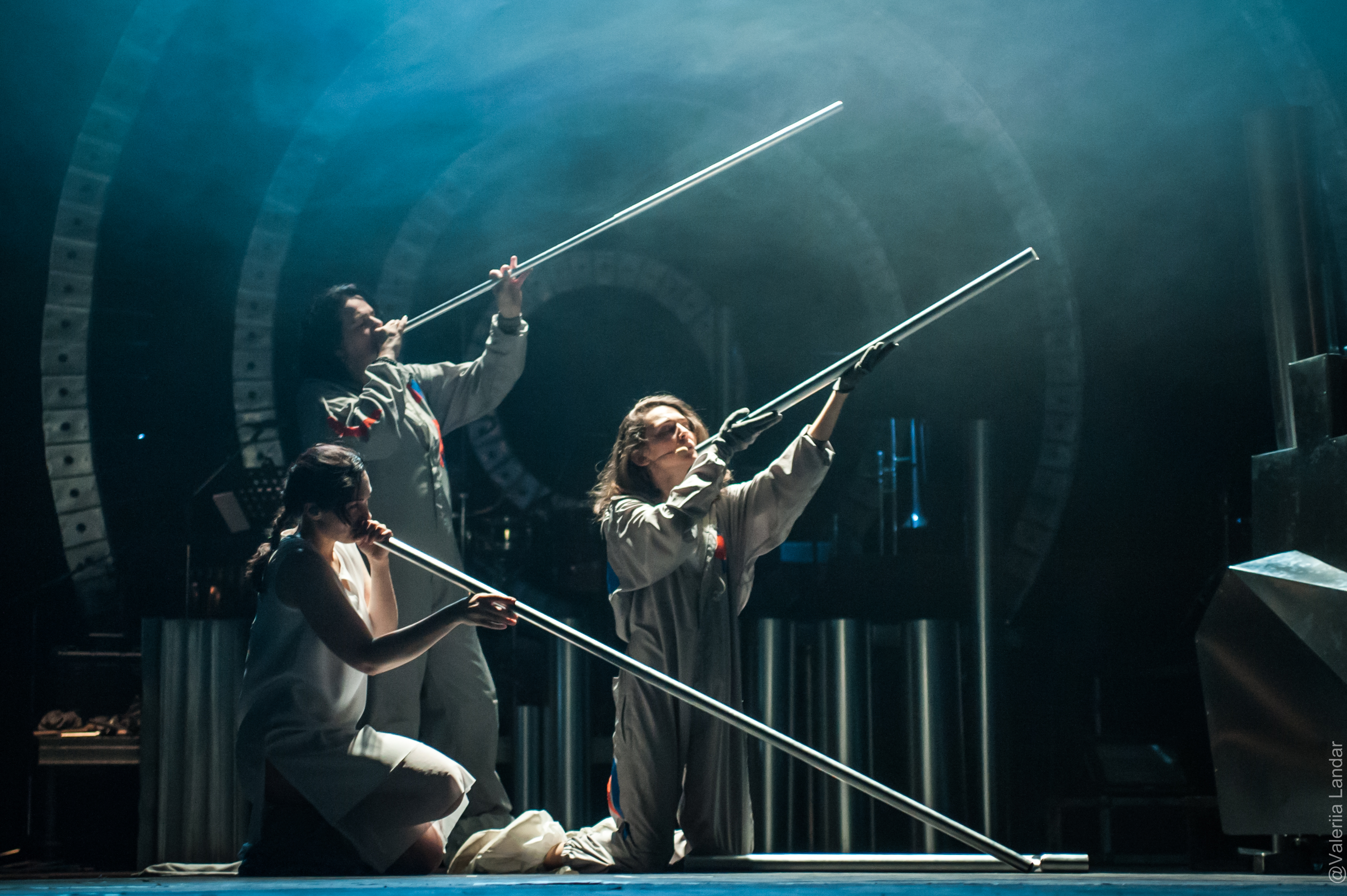 Opera-dystopia GAZ, II ACT.Manifesto, Photo Valeriia Landar